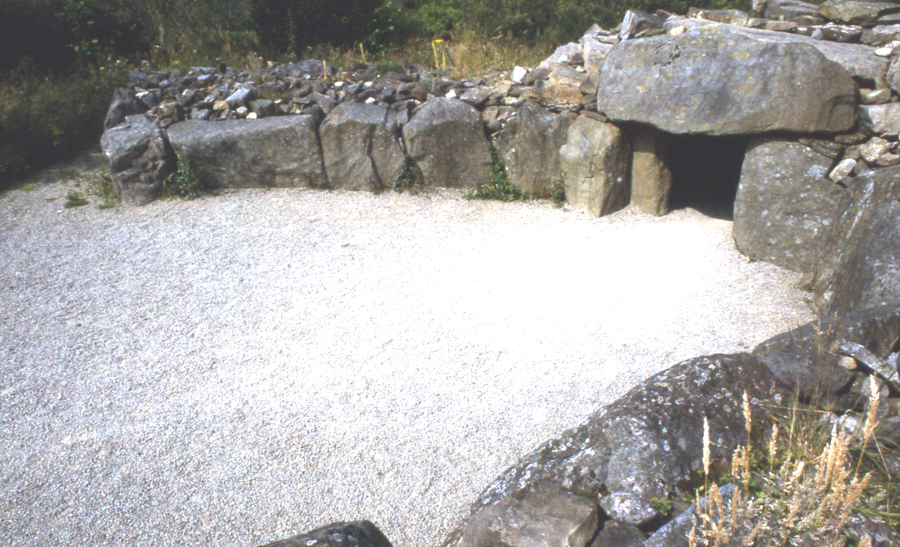 Court tomb in Ulster History Park, Omagh County, Northern Ireland